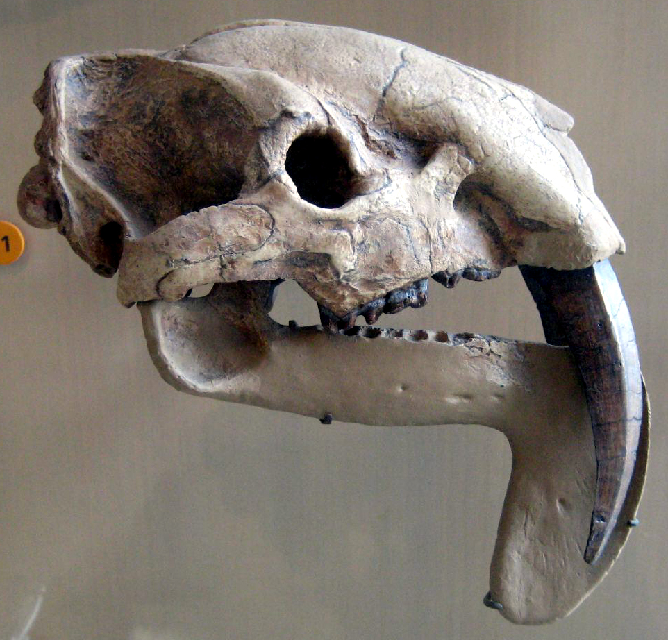 four million year old skull of Thylacosmilus atrox, a saber-toothed marsupial meat eater from South America. Picture taken at the American Museum of Natural History.